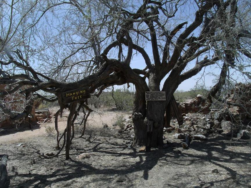 In 1863, after Henry Wickenburg discovered the Vulture Mine, Vulture City a small mining town was established in the area. The town once had a population of 5,000 citizens After the mine closed the city was deserted and became a “ghost town”. The mine and the ghost town are now a tourist attraction in Wickenberg, Arizona. This image is of the Vulture City hanging tree.